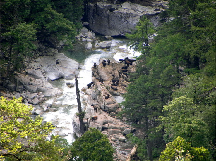 Takin Budorcas taxicolor, Gongshan Derung and Nu Autonomous County, Yunnan, China